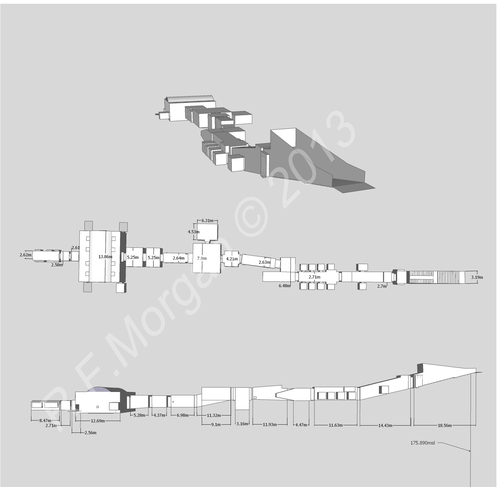 Isometric, plan and elevation images of KV11 taken from a 3d model